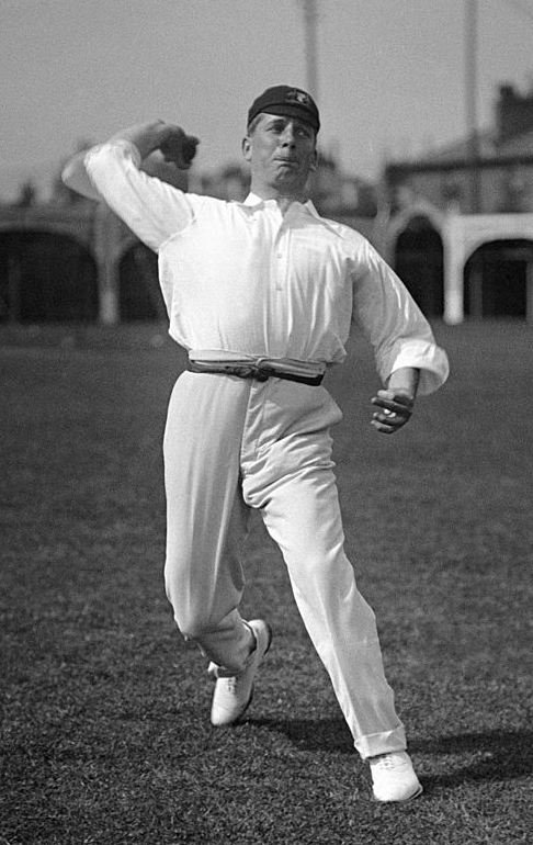 Clement Hill, South Australia and Australia, circa 1905.